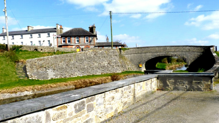 View of Molesworth Bridge from the Harbour